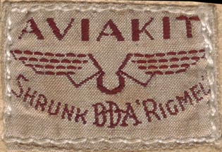 To replace high resolution file 1930s Aviakit label.jpg